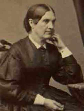 Jane Clothier Master Hunt was born in Philadelphia, Pennsylvania, on June 26, 1812, the daughter of William and Mary Master.. Picture maybe 1850?? Noted for organising 1st womens rights pre-meeting